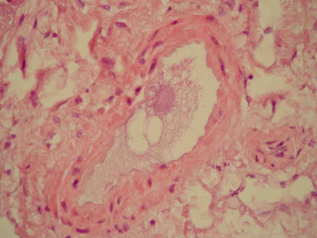 Haematoxylin and eosin stain of a section of the lungs showing a blood vessel with fibrinoid material and an optical empty space indicative of the presence of lipid dissolved during the staining process. This 55-year-old woman died of massive fat embolism after developing pancreatitis due to endoscopic retrograde cholangiopancreaticography.